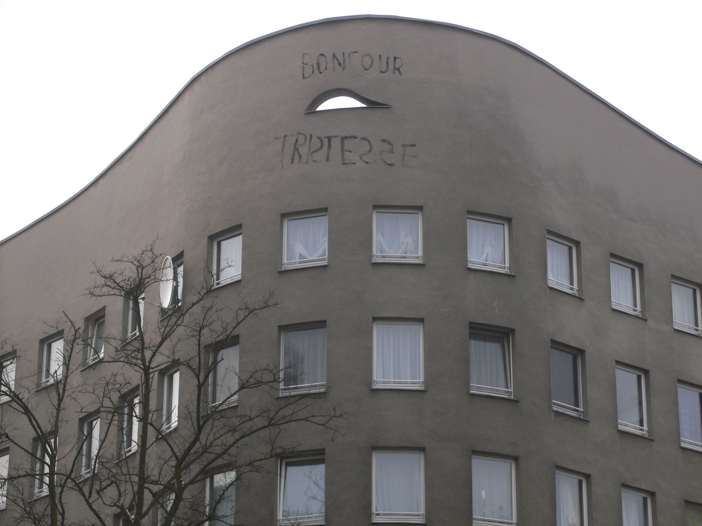 Berlin, Kreuzberg, Schlesische Straße 7, Falckensteinstraße 4 – building "Bonjour Tristesse", architect: Alvaro Siza, build between 1981 and 1984; detail: the graffiti of an unknown artist that has given the building it's name